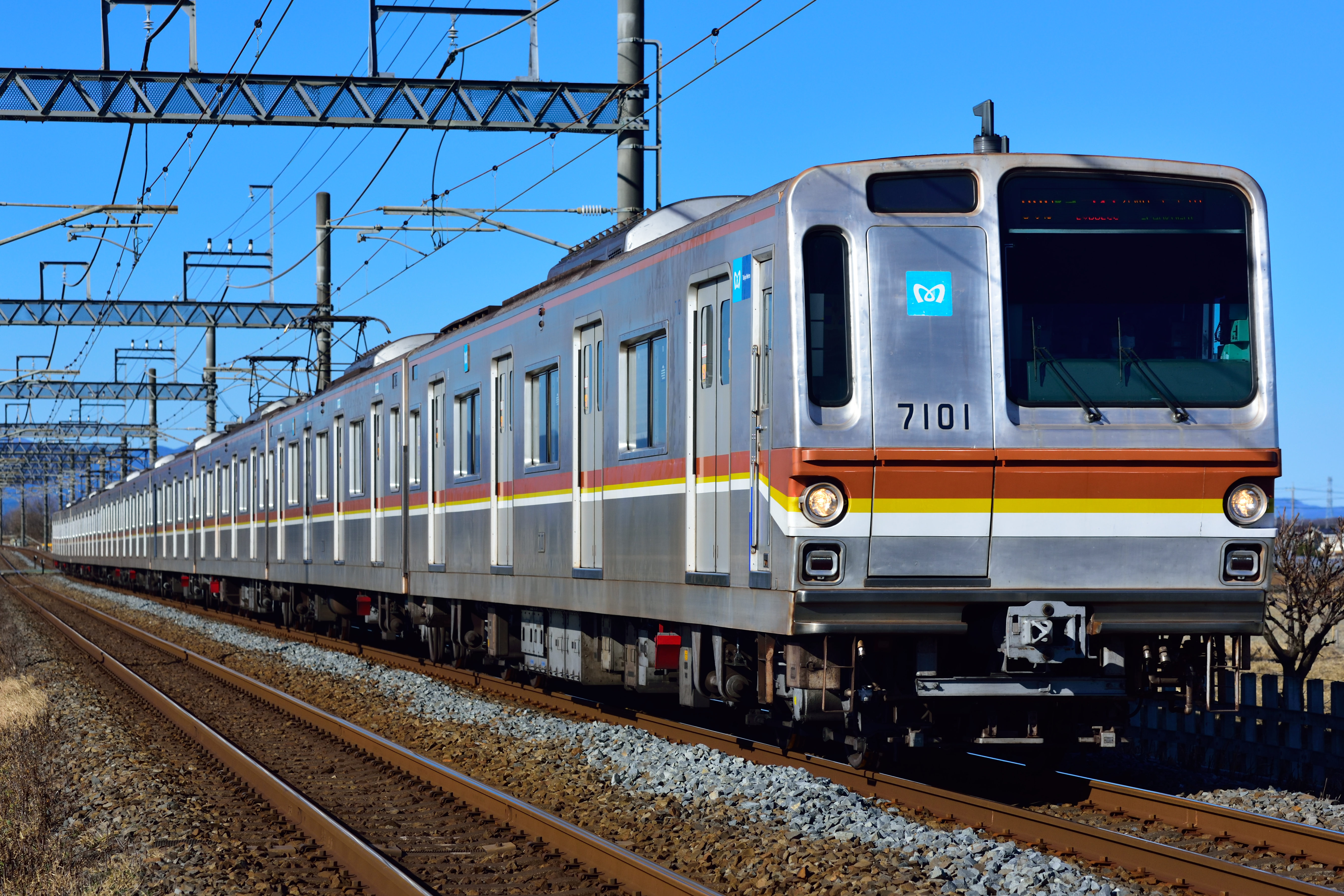 Tokyo Metro 7000 series EMU set 7101 between Kawagoeshi and Kasumigaseki stations on the Tobu Tojo Line in Saitama Prefecture, Japan